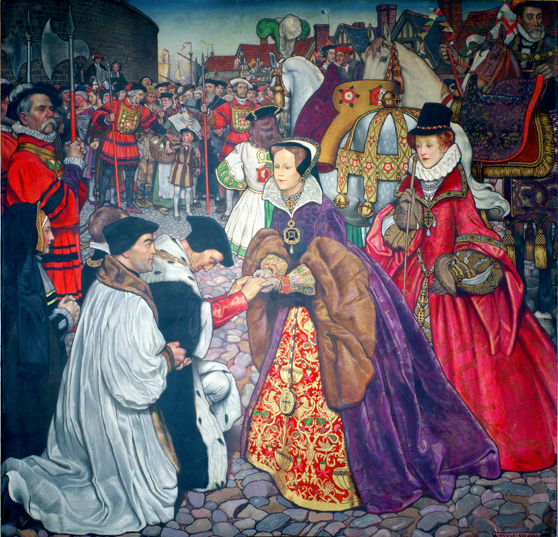 "Entry of Queen Mary I with Princess Elizabeth into London in 1553" by John Byam Liston Shaw, 1910. Palace of Westminster collection. Oil on canvas, 205.7 x 210.8 cm Lower edge was cropped out in source file.